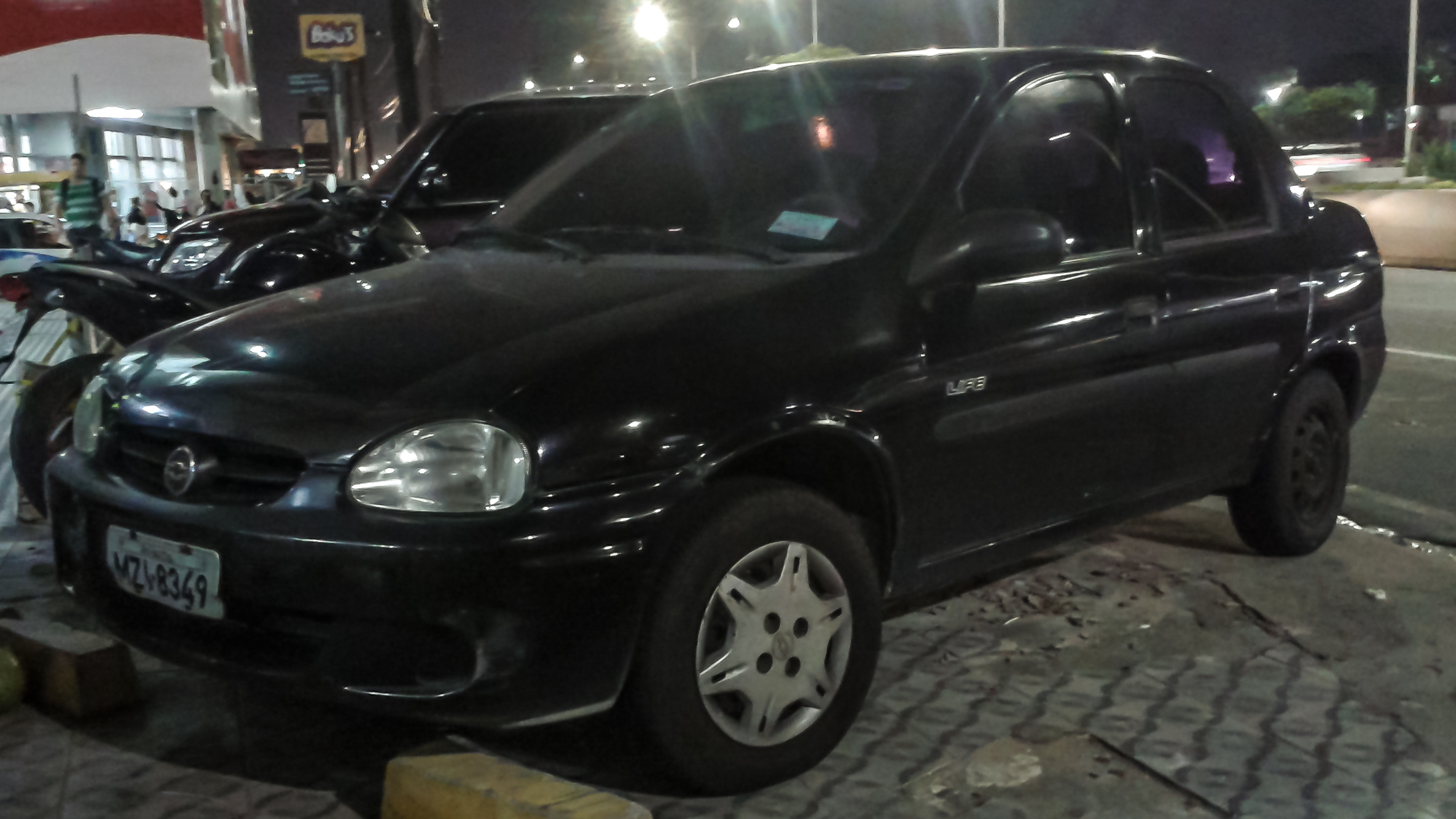 Chevrolet Classic Life